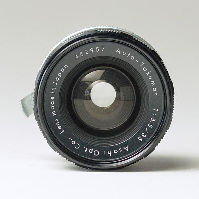 Author: Paul M. Provencher; Source: Author Created Image; URL